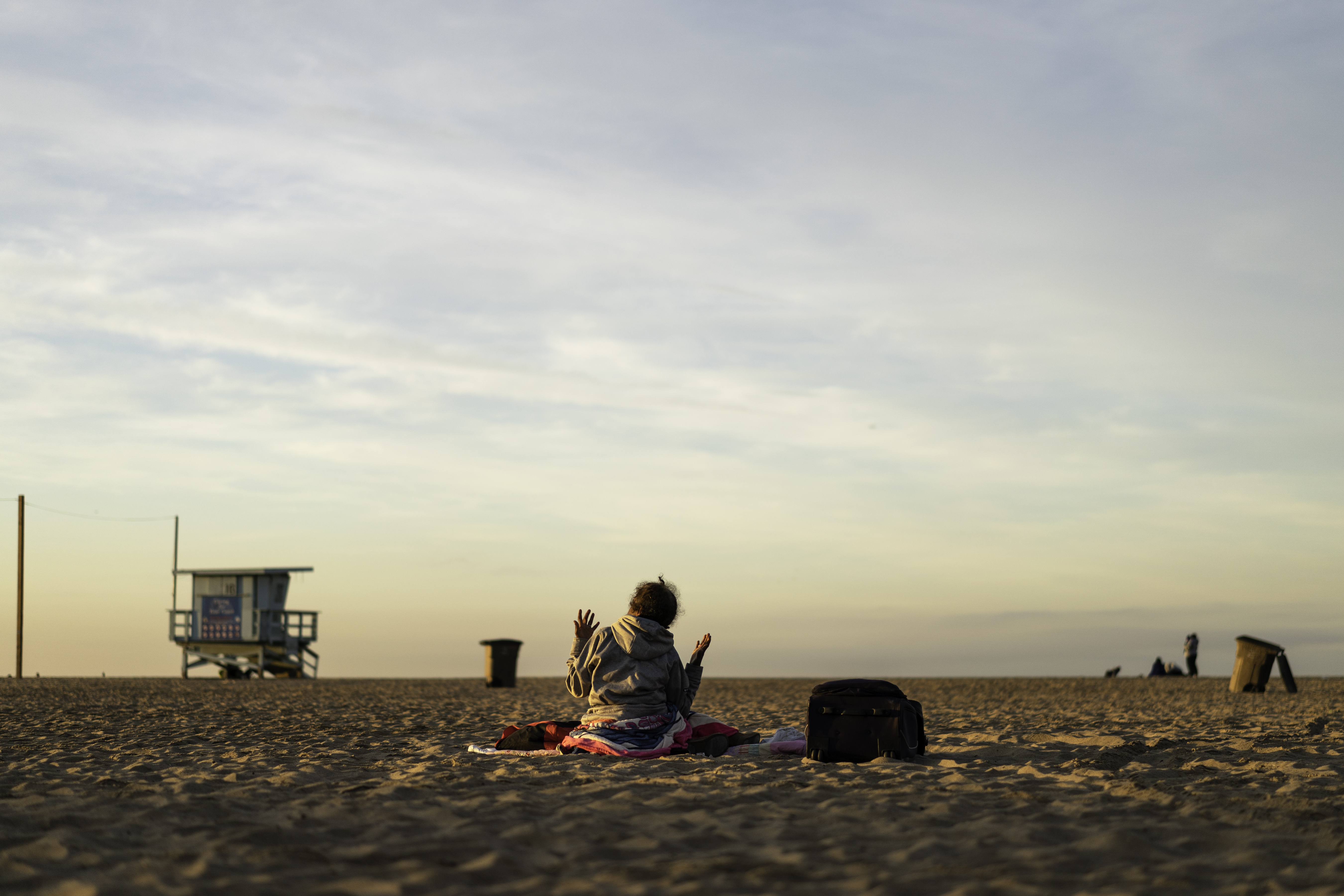 A person on the beach sits as the sunrises at Santa Monica Beach, California